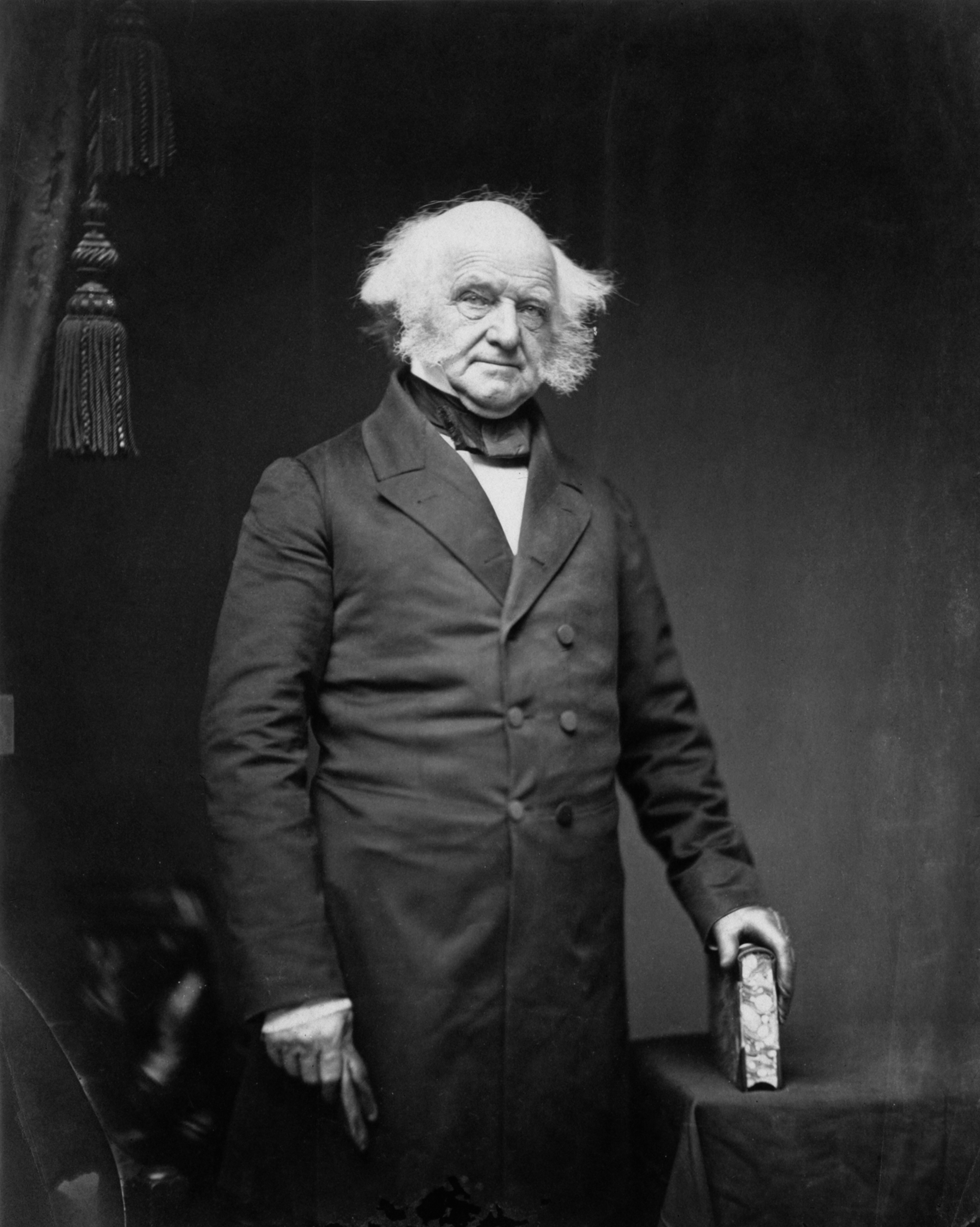 Imperial print of Martin Van Buren Salted paper print from glass negative Height: 48.3 cm (19 ″); Width: 39.7 cm (15.6 ″) dimensions QS:P2048,48.3U174728;P2049,39.7U174728 Provenance from W. H. Lowdermilk & Co., Rare Books, 1418 F Street, Washington, DC